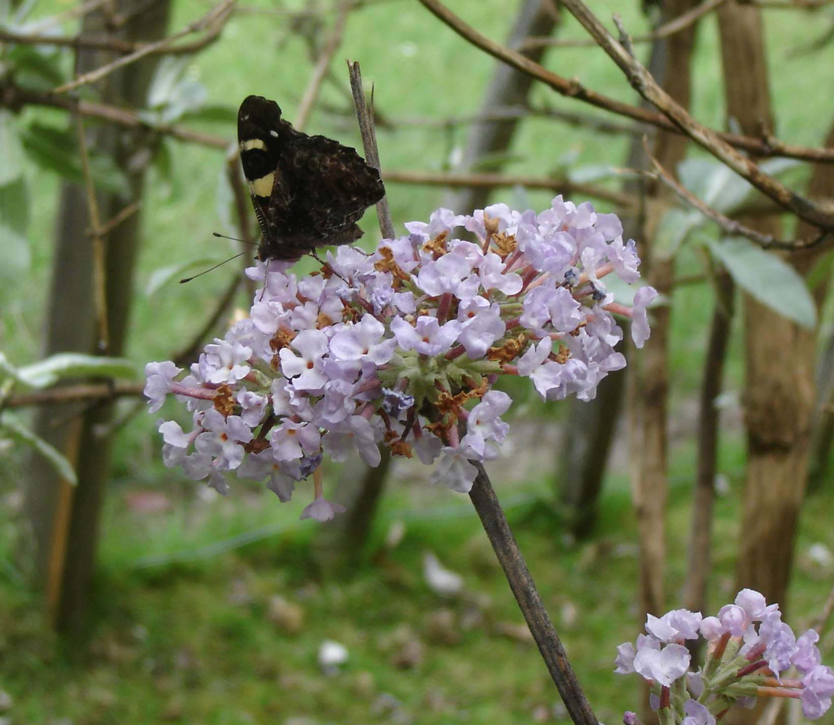 Hackfalls Arboretum, Tiniroto, Gisborne, New Zealand. Buddleja crispa flowering in spring.